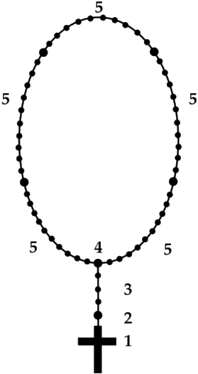 Sketch of the Roman-Catholic Rosary